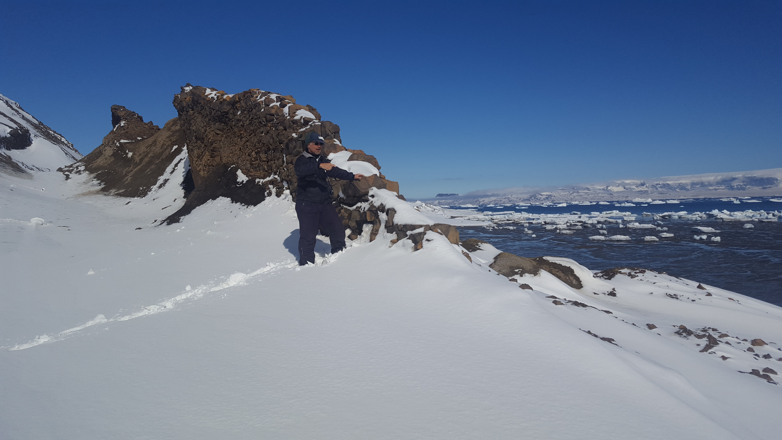 One of several basalt dikes parallel to the north shore